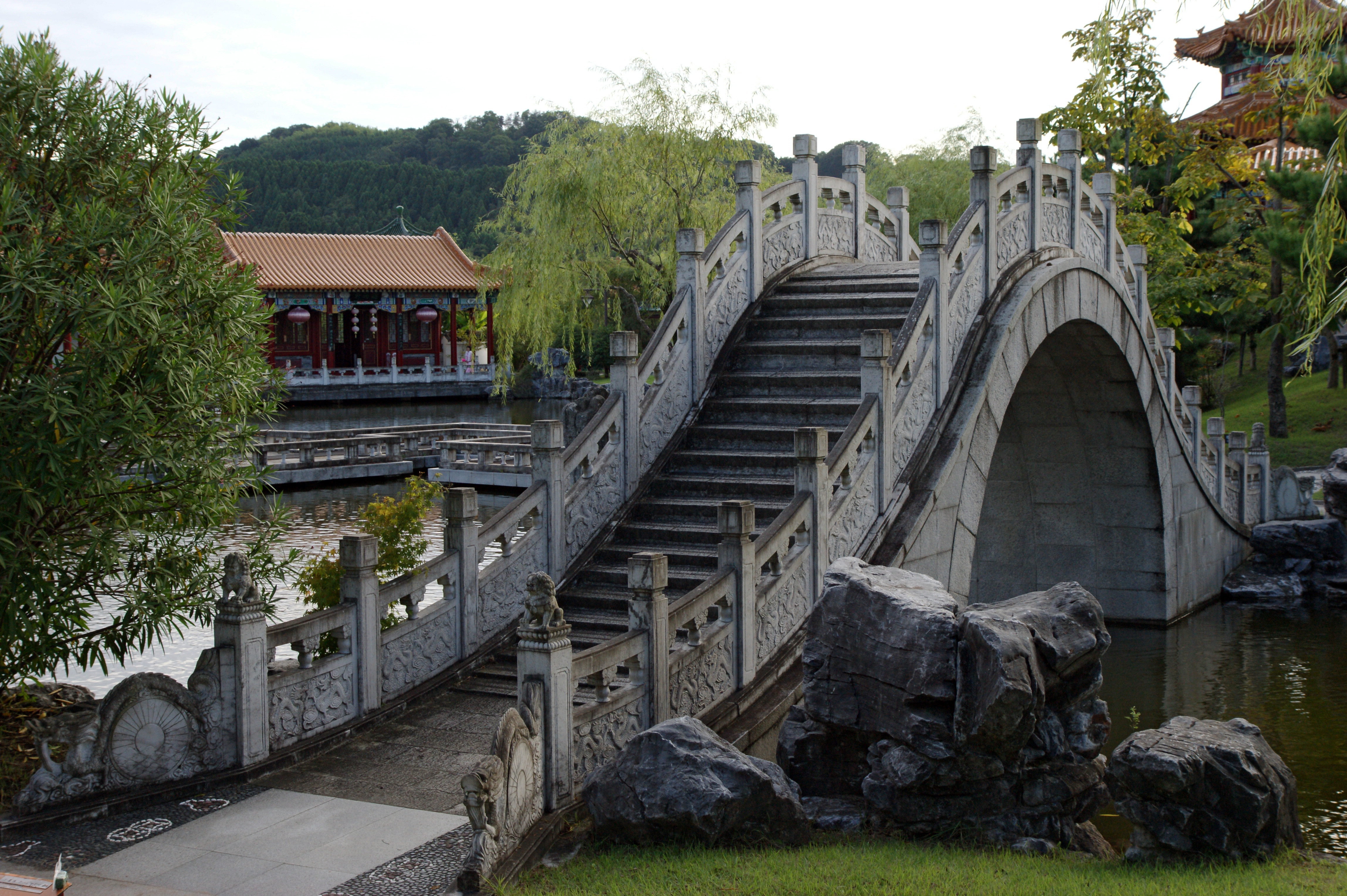 Enchoen in Yurihama, Tottori prefecture, Japan